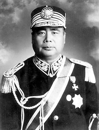 Feng Yuxiang, warlord in Republican China.